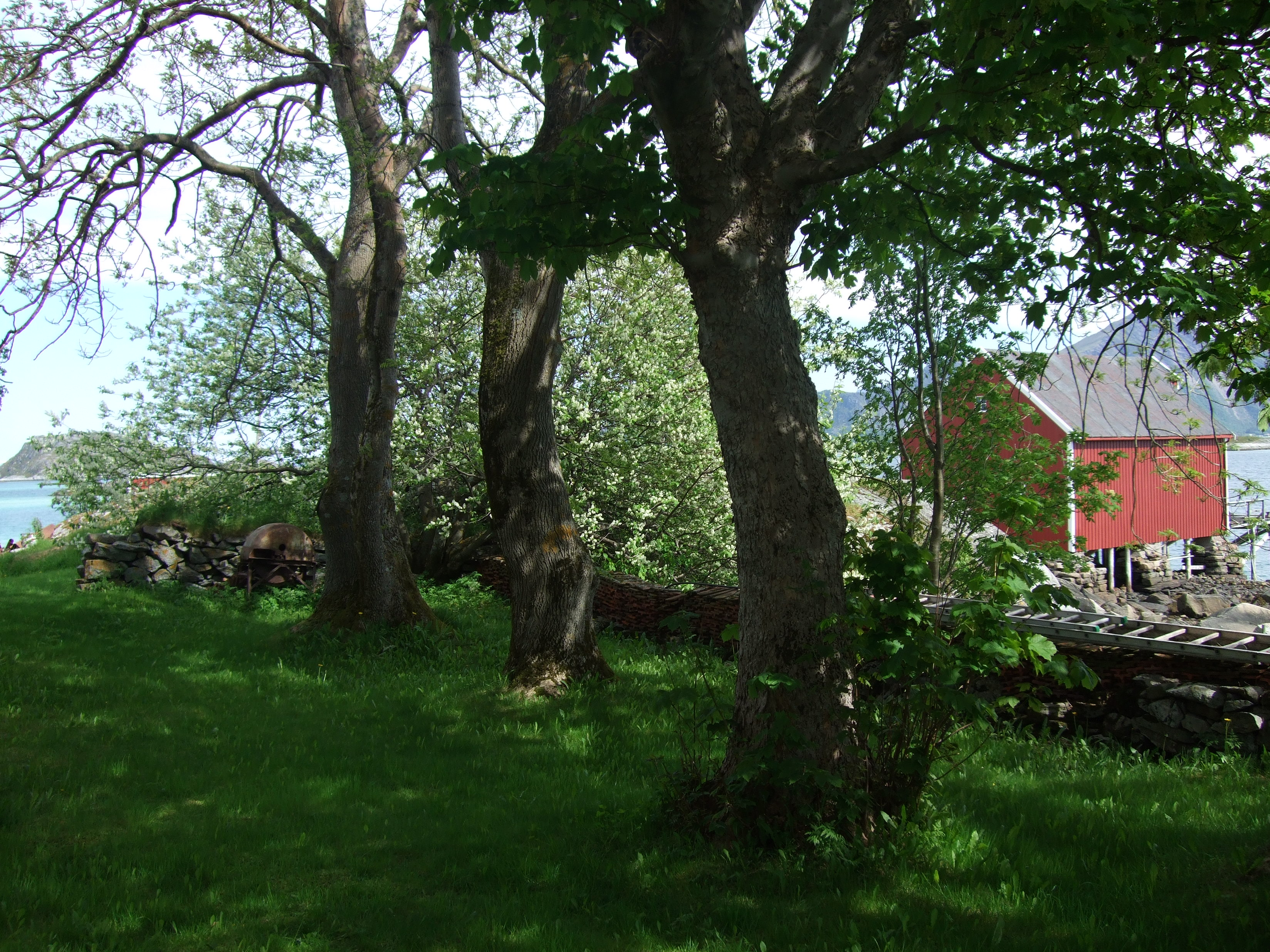 Old garden with Norway Maple, Ash and Bird Cherry located at Løvøy in SteigenNorsk bokmål: Gammel hage med ask, lønn og Hegg på Løvøy gamle handelsted.